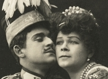 Norwegian married acting couple Harald Steen (left) and Signe Heide Steen (right) as Valencienne Zeta and Camille Rosillon in "The Merry Widow" at the Centralteatret (Oslo) in 1907.